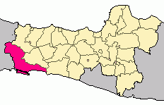 Location of Kabupaten (Regency) Cilacap in Central Java, Indonesia